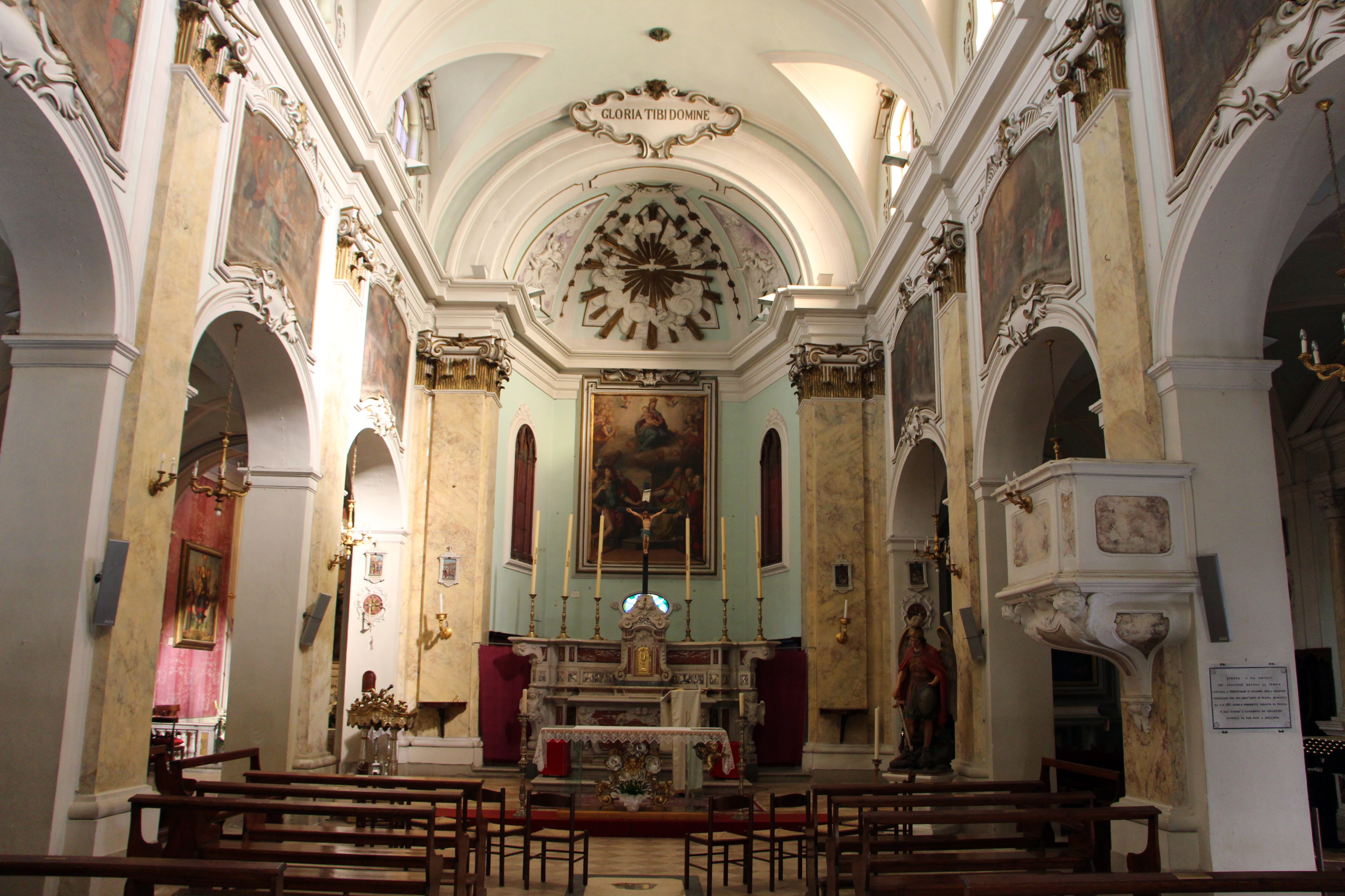 San Michele Arcangelo (Montevettolini)